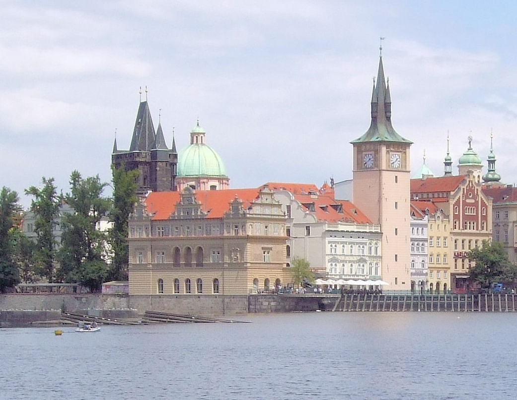 Looking downstream on the Vlatrava River to the Charles Bridge tower (dark tower on left). The Green Dome is the church of St Francis, and the clock tower to its left is next door to the Smetana Museum.